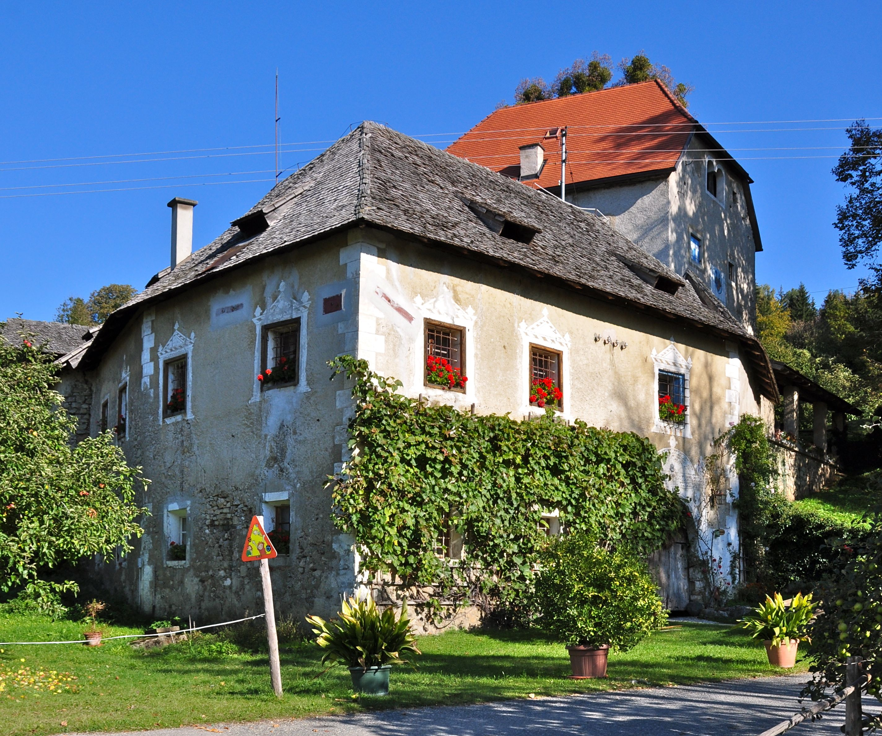 Manor Grub, "Wuchererschloessl", Auf der Peintn #1, Drasendorf, municipality Sankt Georgen am Laengsee, district Sankt Veit an der Glan, Carinthia, Austria